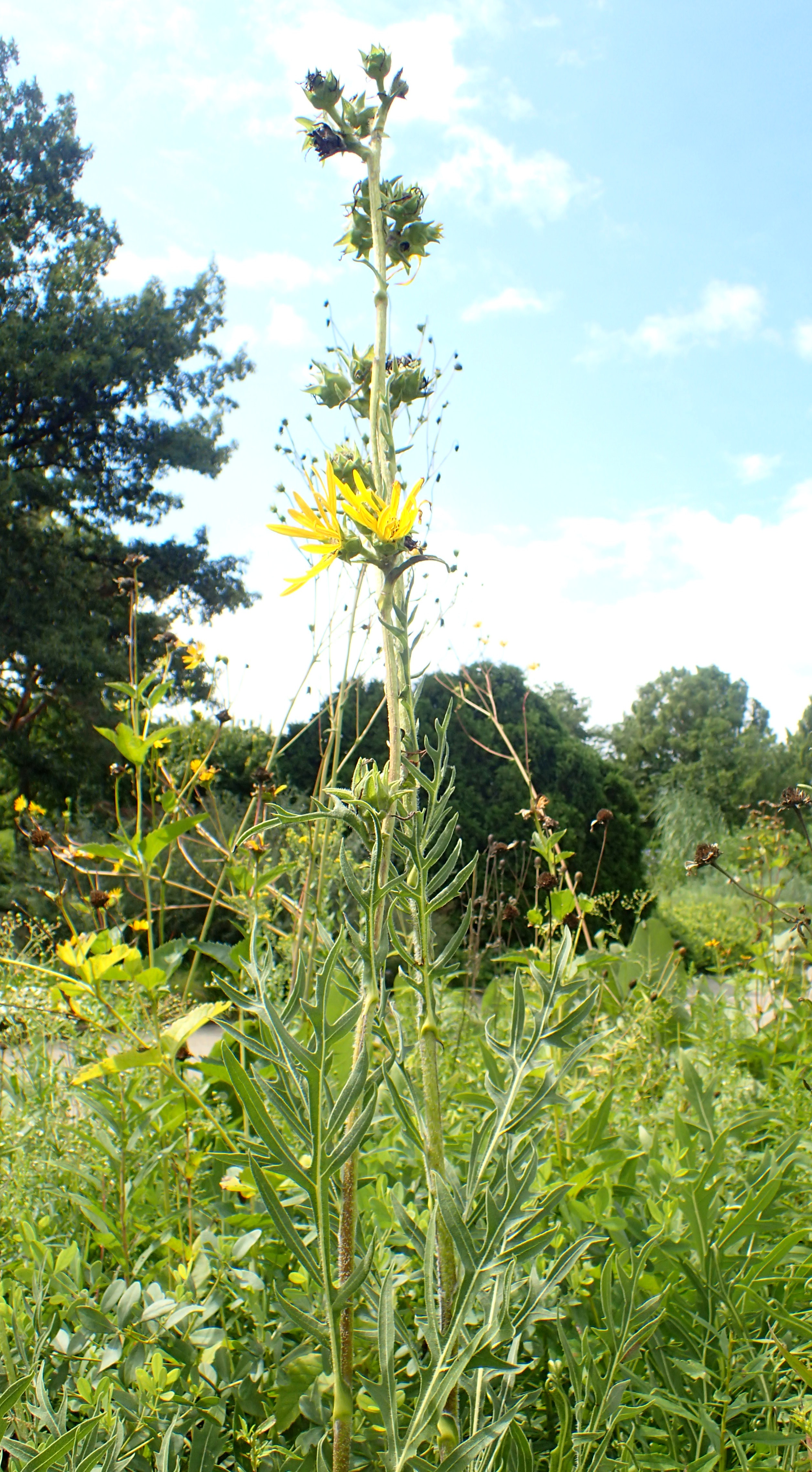 Silphium laciniatum at Chicago Botanic Garden